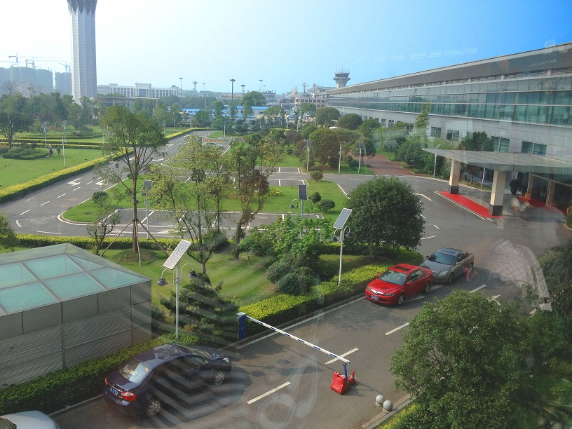 changsha airport terminal2 view of tower and parking area